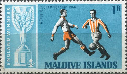 Maldives 1967 Football 100